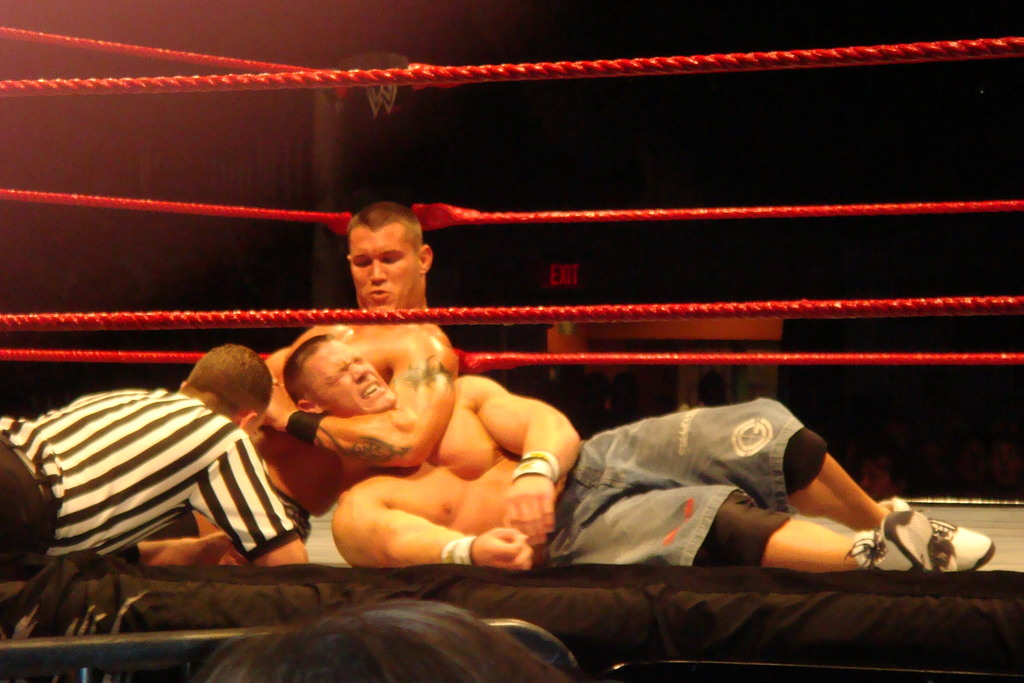 Randy Orton choking John Cena